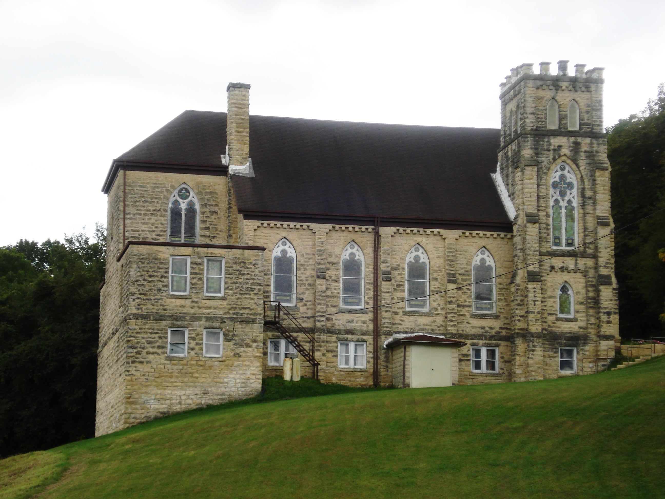 Designed by Guido Beck and built of stone donated by Henry Dearborn, John Green, and John Ronen.